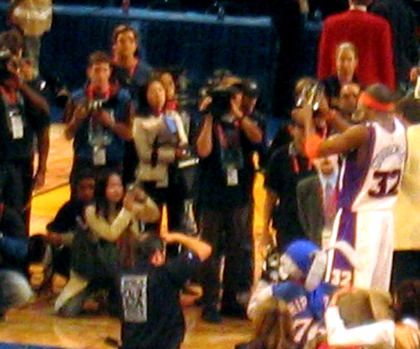 Amar'e Stoudemire (far right) of the Sophomores Team receiving the MVP award for the 2004 got milk? Rookie Challenge game at the Staples Center. The photograph was taken with a Canon PowerShot A70 camera and edited (color balance, brightness, contrast, sharpness) using ArcSoft PhotoStudio 5.5